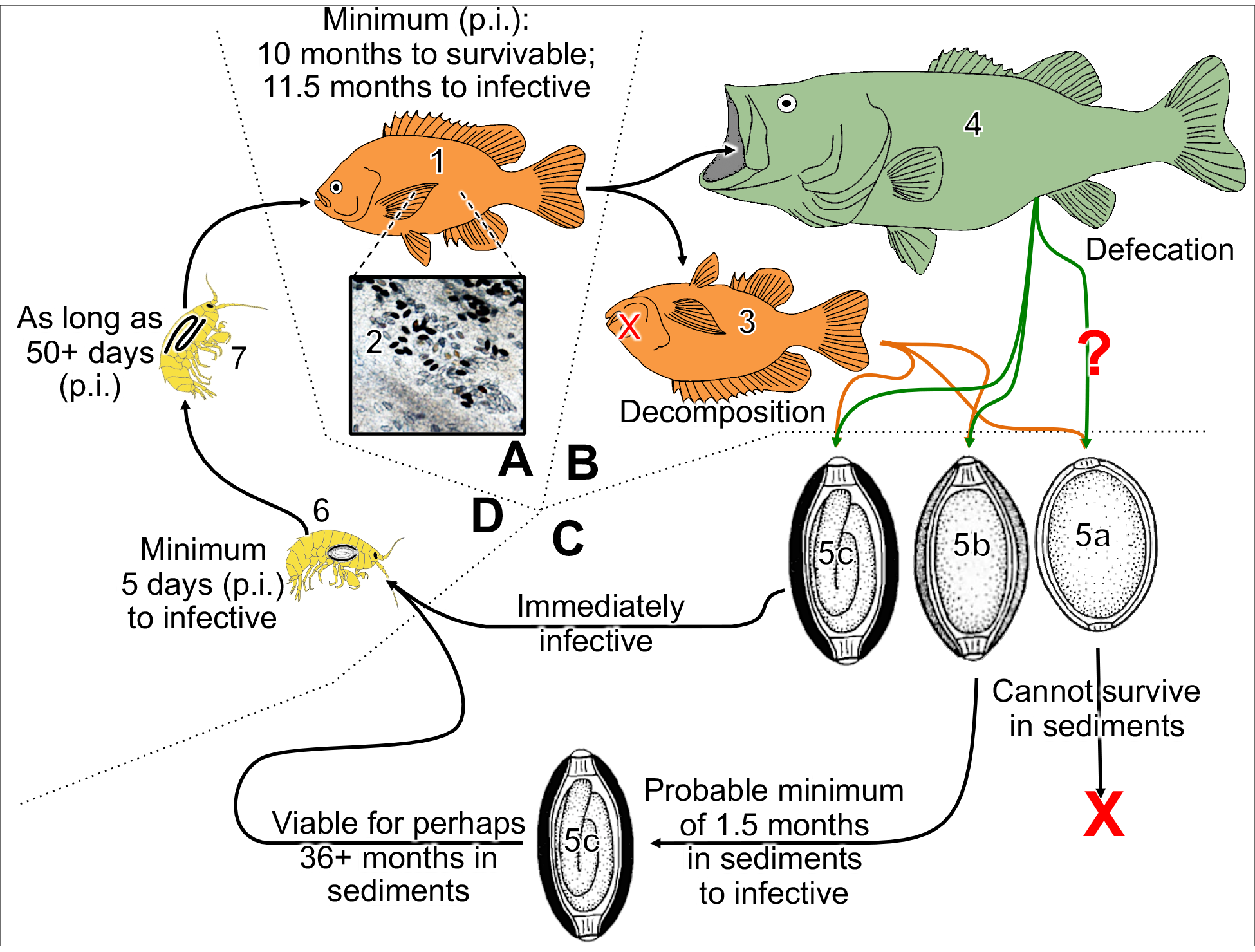 Figure 6 in paper. Diagram showing steps in the life cycle of Huffmanela huffmani Moravec, 1987 (not to scale). A – adults lay eggs in definitive host; at least 7.5 months must pass between ingestion of viable larva and the appearance of fertilised eggs in the host swim bladder, but eggs do not become fully larvated and infective to amphipods until 11.5 months post infection (p.i.): 1 – centrarchid definitive host; 2 – photomicrograph of swim bladder tissue showing eggs in various stages of development; B – release of eggs from definitive host: 3 – definitive host dies and decomposes to release eggs; 4 – definitive host is consumed by piscivorous fish and viable eggs with sufficiently developed shells pass out in faeces; C – eggs free in sediments: 5a – young eggs ( 10 months p.i.) can survive in environment and through GI tract of piscivore, but are uninfective to amphipods until they become fully larvated while in sediments; 5c – fully larvated eggs (≥11.5 months p.i.) are immediately infective to amphipods and are still infective to amphipods after 36+ months in sediments; D – fully larvated eggs ingested by amphipod: 6 – larvae hatch and migrate to hemocoel where they must remain for at least 5 days p.i. before being infective to definitive host; 7 – larva in hemocoel of amphipod and infective to centrarchid. Life cycle can be completed in a theoretical minimum of 12 months, but can probably take longer than 36 months.